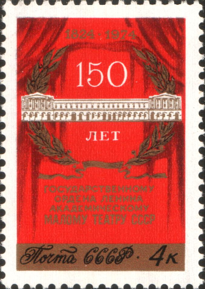 USSR stamp